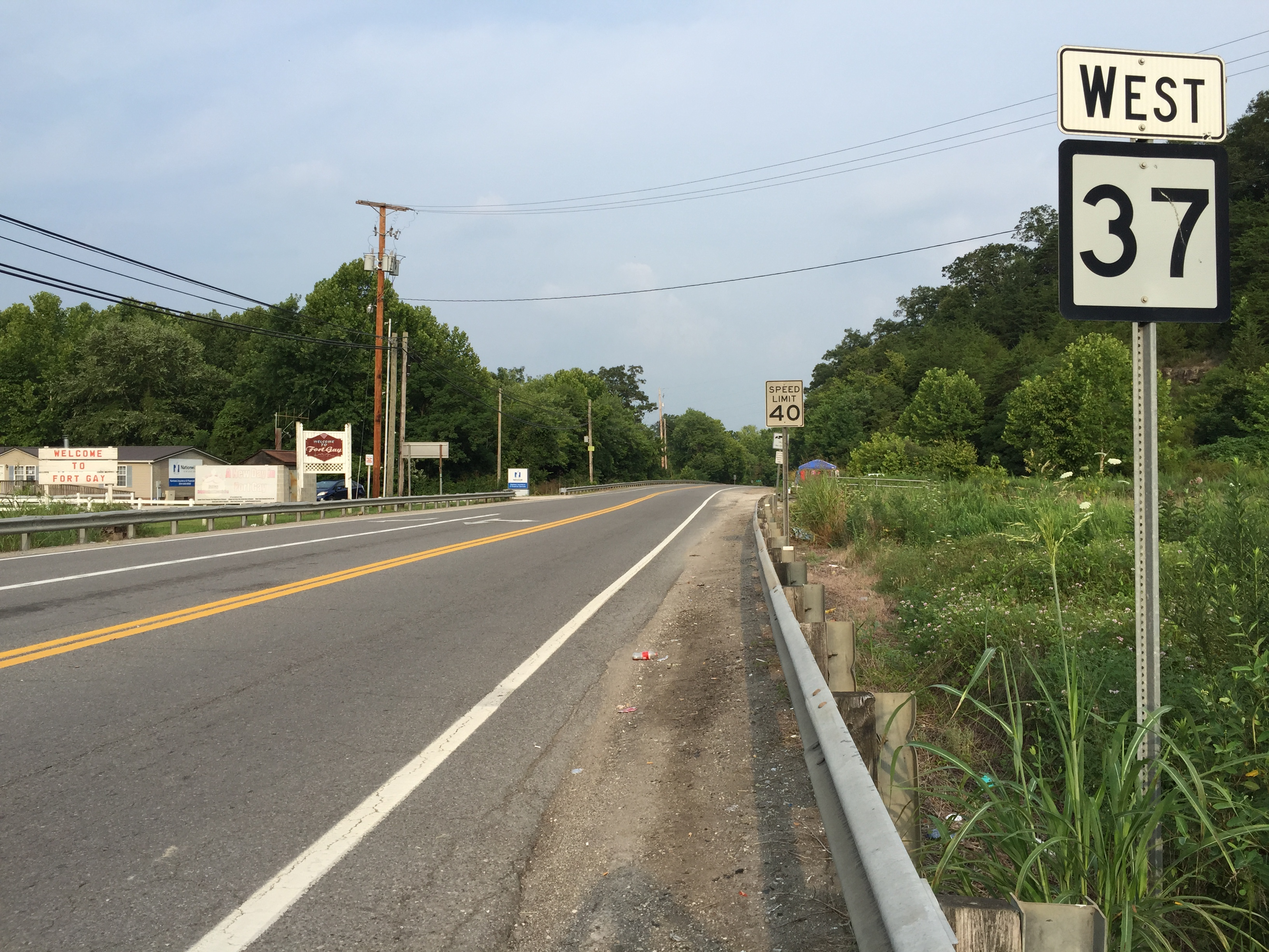 View west along West Virginia State Route 37 (Court Street) at U.S. Route 52 in Fort Gay, Wayne County, West Virginia